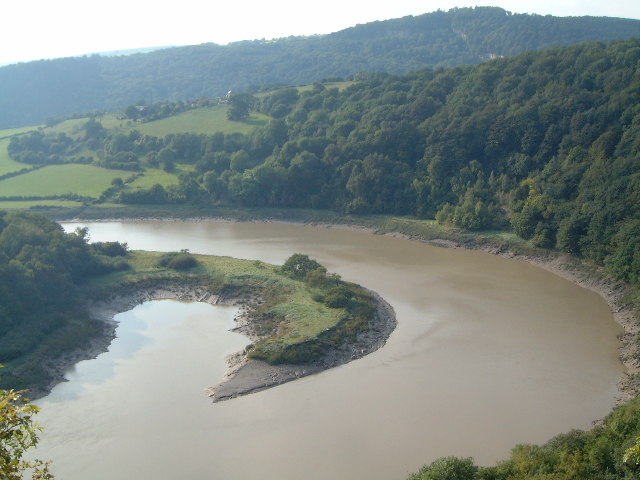 A view north of the River Wye, Lancaut, Chepstow. The "spit" may be formed by deposition on the inside or and/or by flushing out by natural springs.